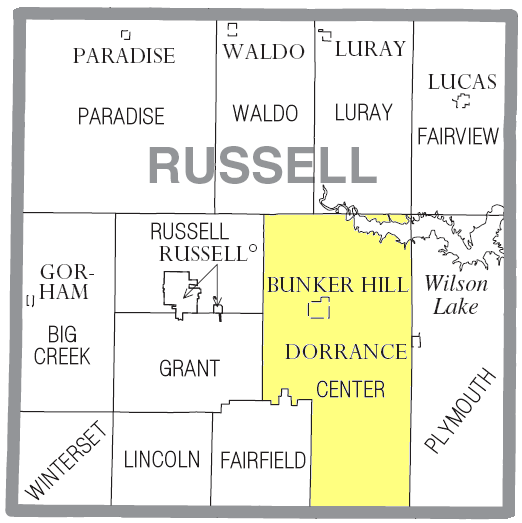 Map of Russell County, Kansas highlighting Center Township